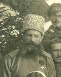 Gandzyuk, Yakov Grigoryevich